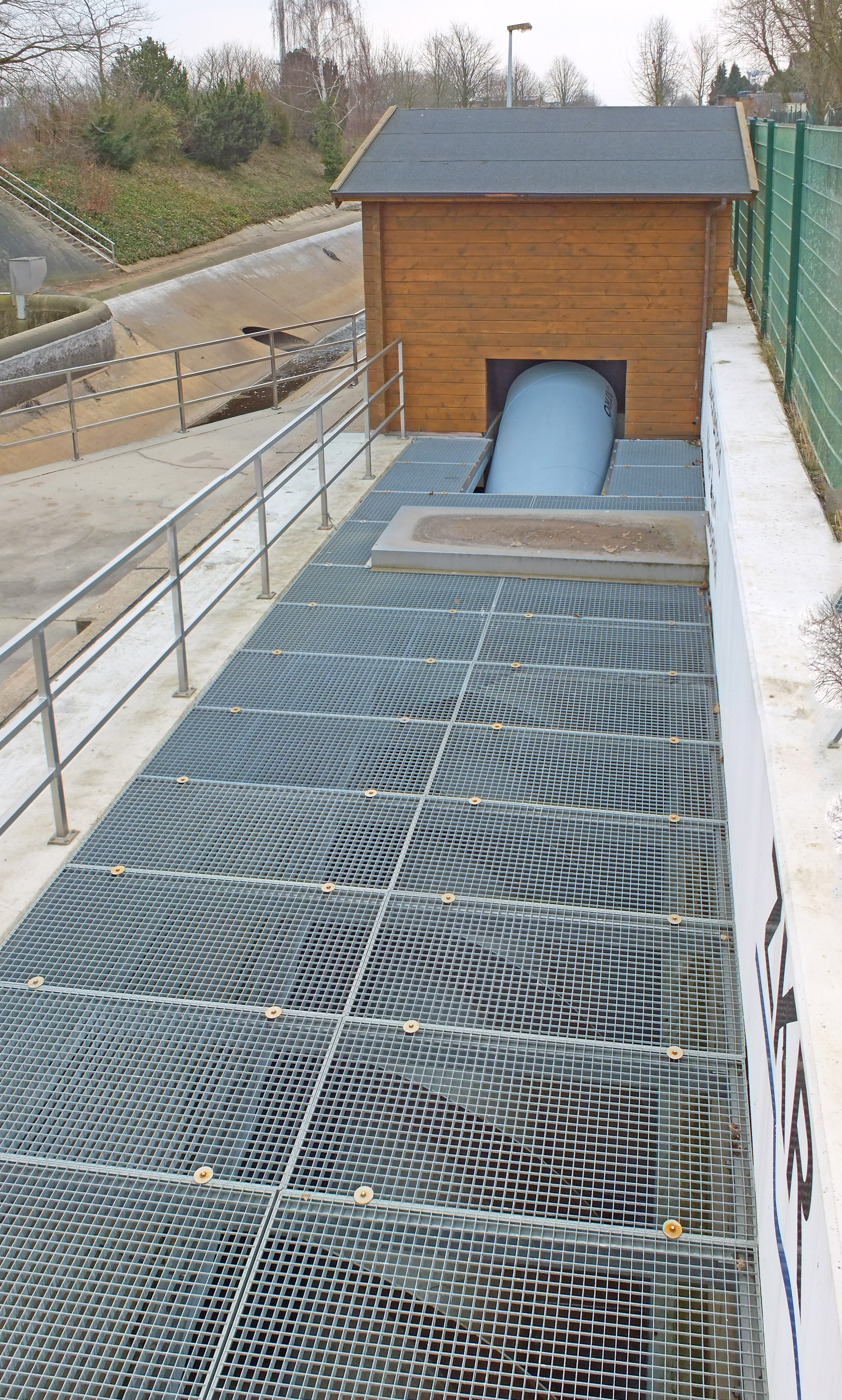 Archimedes' screw from hydroelectricity at Pulheim, border channel